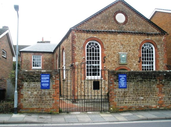 Providence Chapel, Chapel Street, Chichester, West Sussex, seen from the east